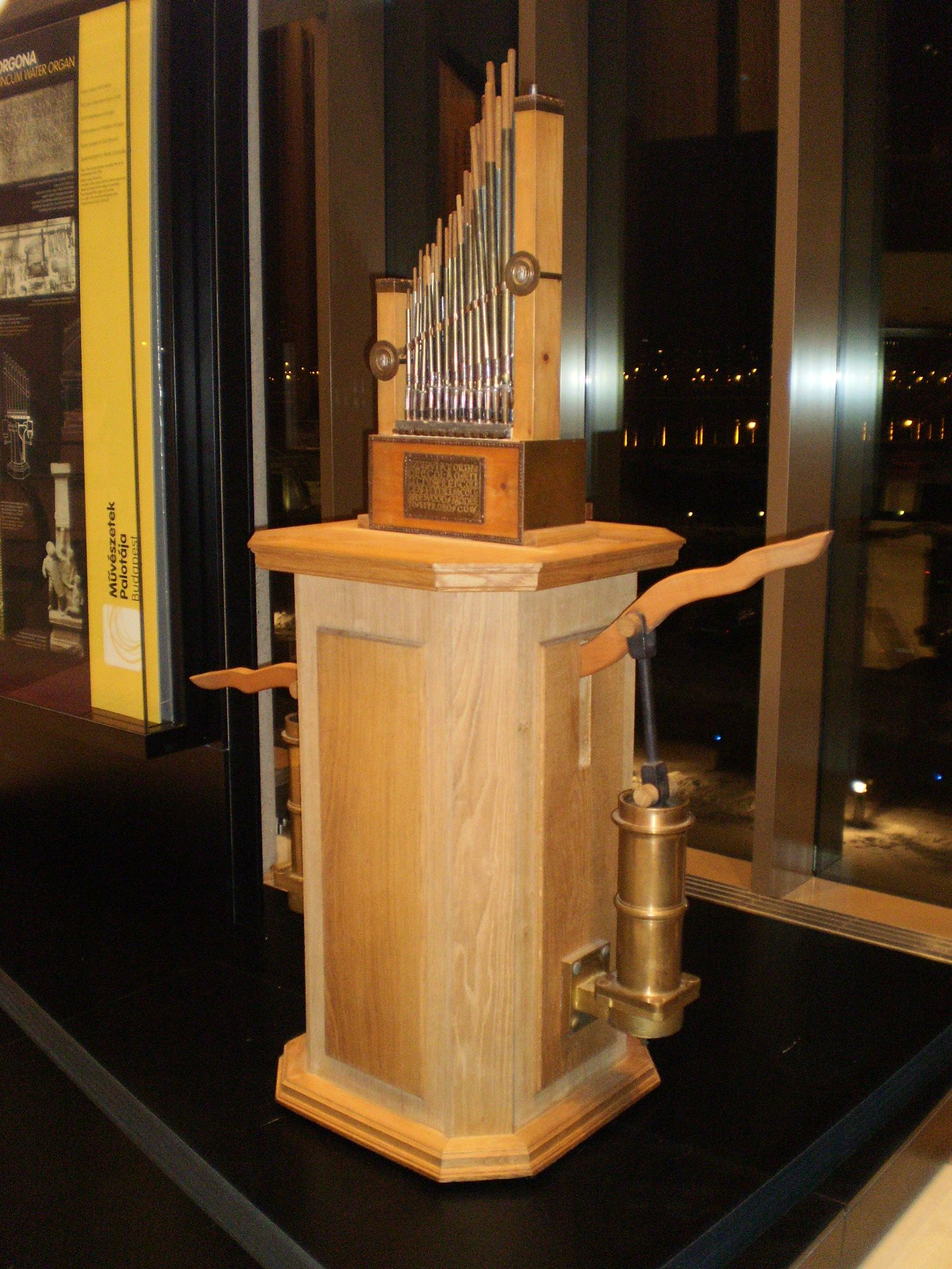 Reconstruction of a hidraulis (water organ) found in Aquincum (Hungary) Az aquincumi víziorgona rekonstrukciója a MÜPÁ-ban